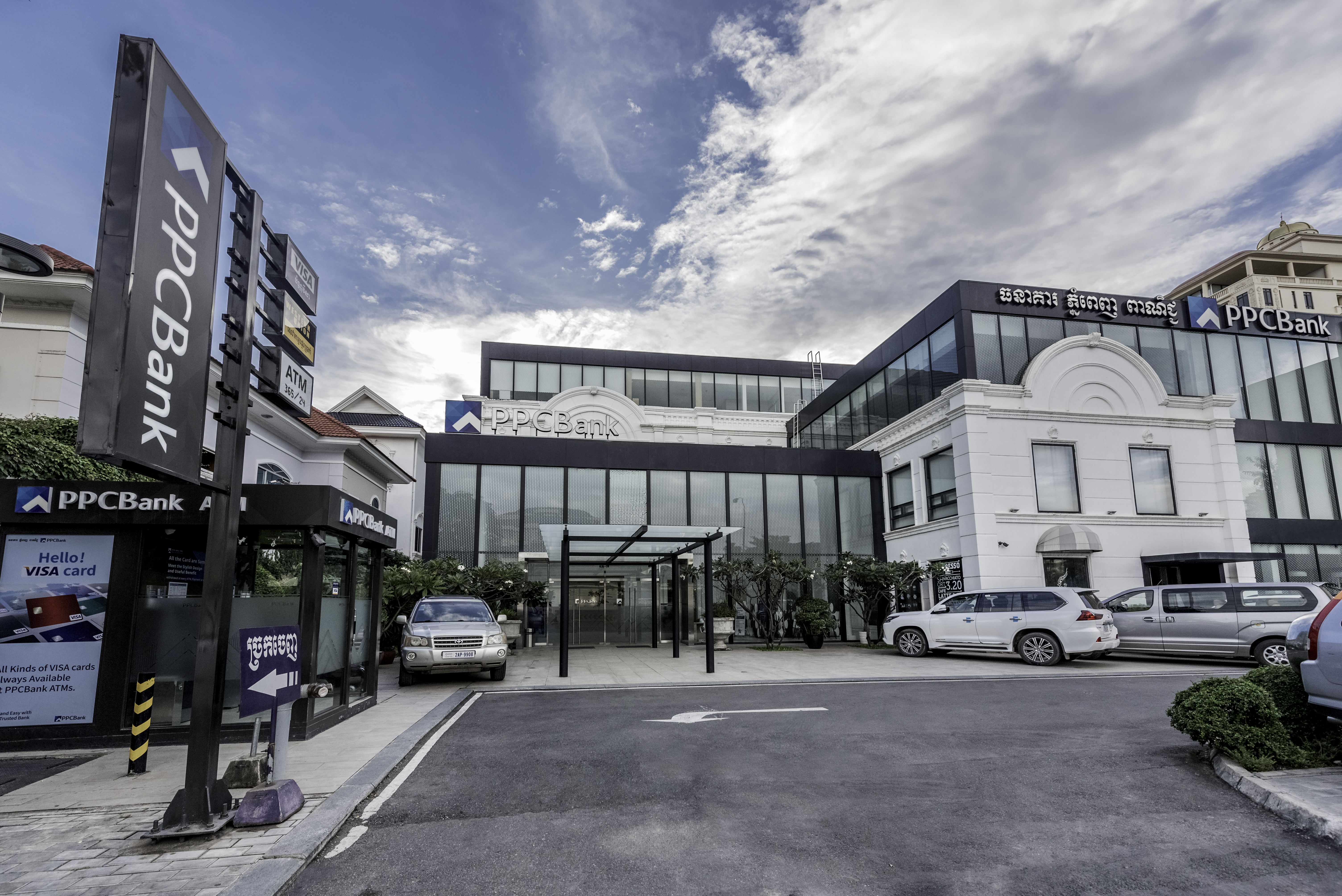 PPCBank (Phnom Penh Comercial Bank)